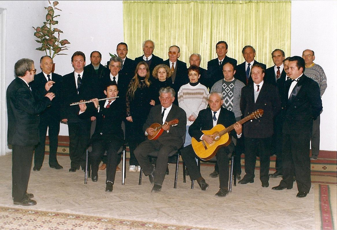 Kori Lira